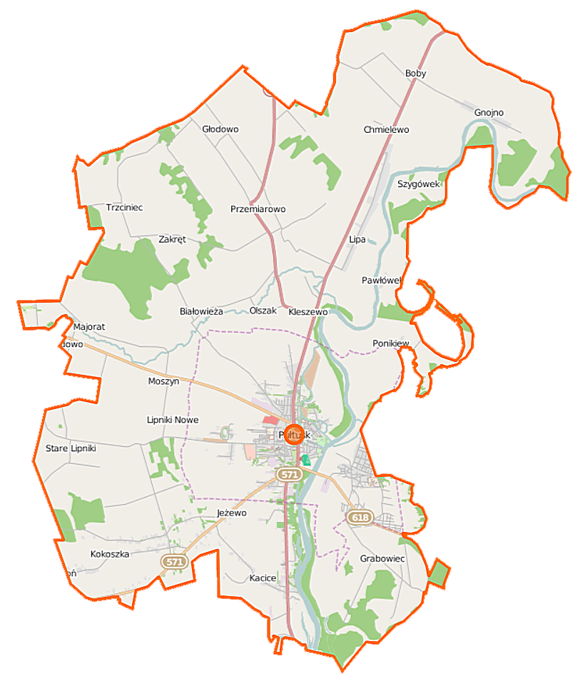 Map of Gmina Pułtusk, Poland This map of Pułtusk (gmina) was created from OpenStreetMap project data, collected by the community. This map may be incomplete, and may contain errors. Don't rely solely on it for navigation. Border coordinates52.806120.9708←↕→21.195752.6468